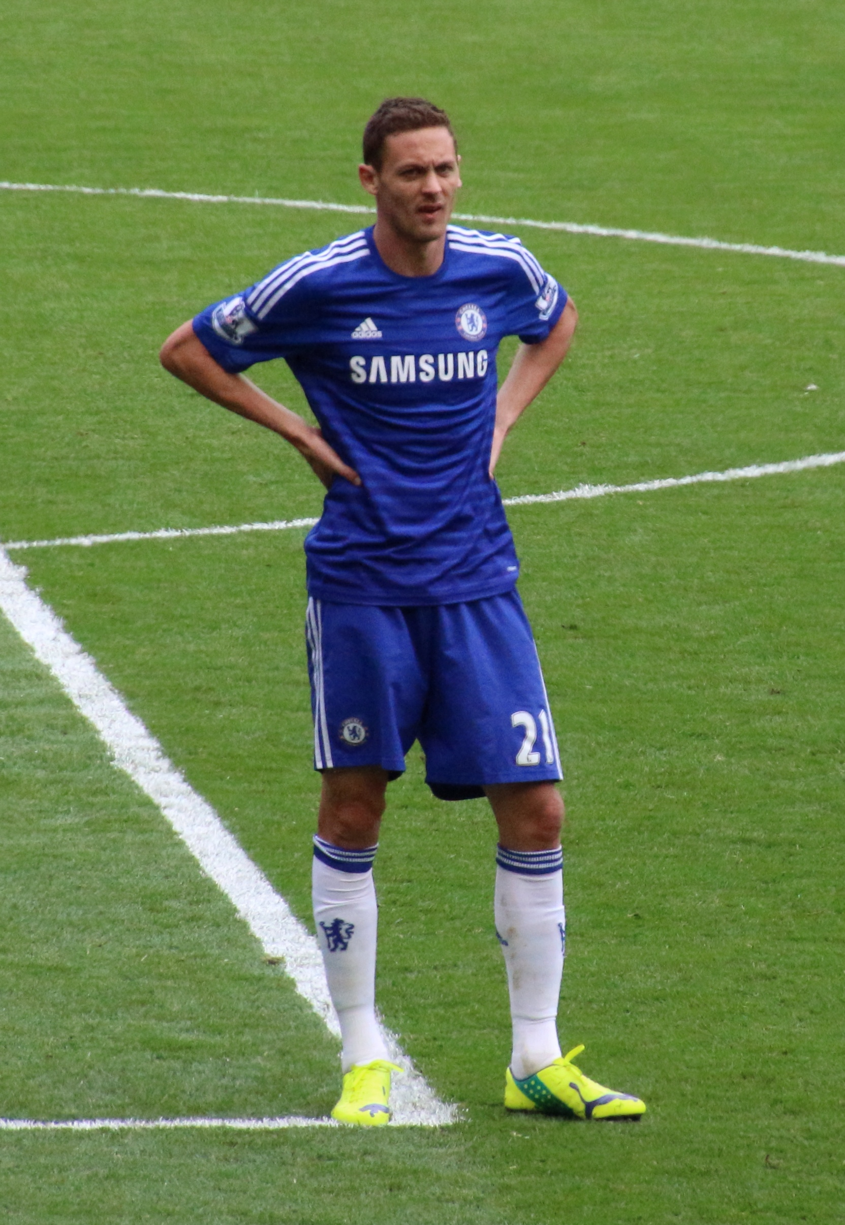 Premier League match between Chelsea and Arsenal at Stamford Bridge on 5 October 2014.